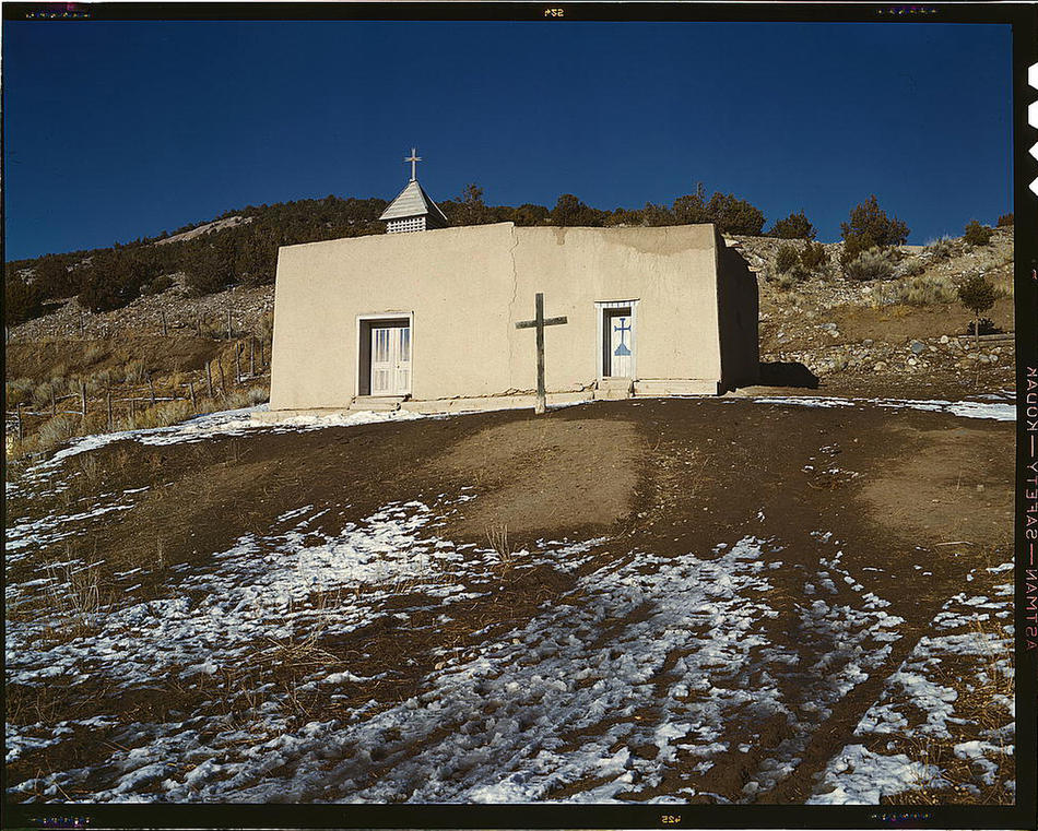 Chapel, Vadito. Near Penasco, New Mexico, Spring 1943.